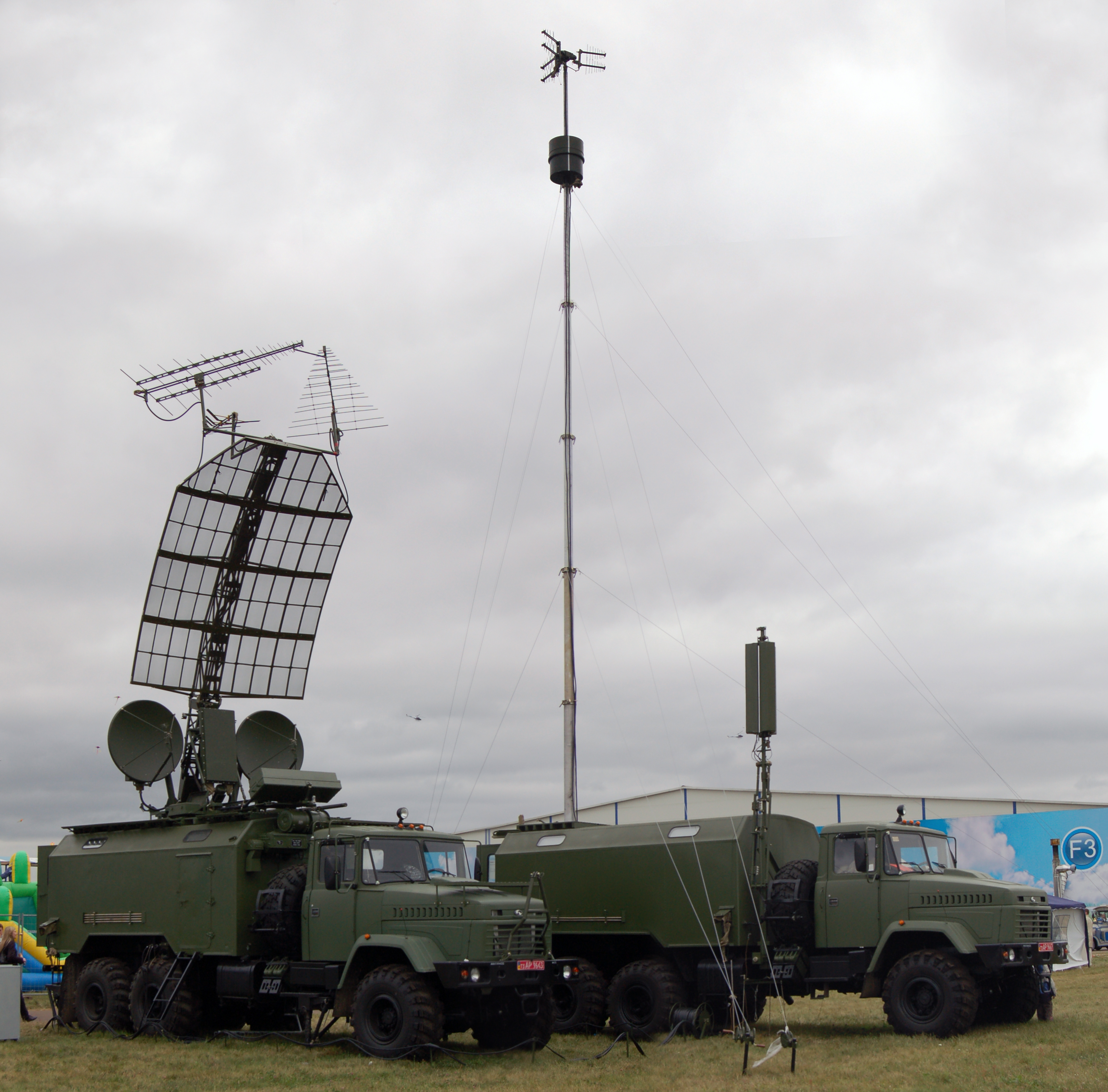 passiv Radarsystem "Hauberk" (Koltschuga) for long range SIGINT